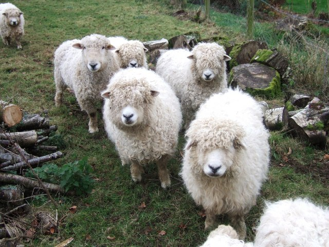 Longwool sheep, Heronslake I think these splendid creatures are Devon and Cornwall Longwool. Eager for attention when I failed to find the correct route of St. Giles in the Wood Footpath 2.